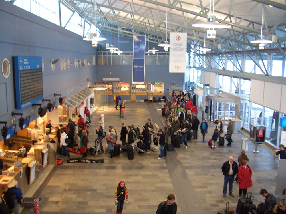 Tromsø Airport check-in counters at ground level